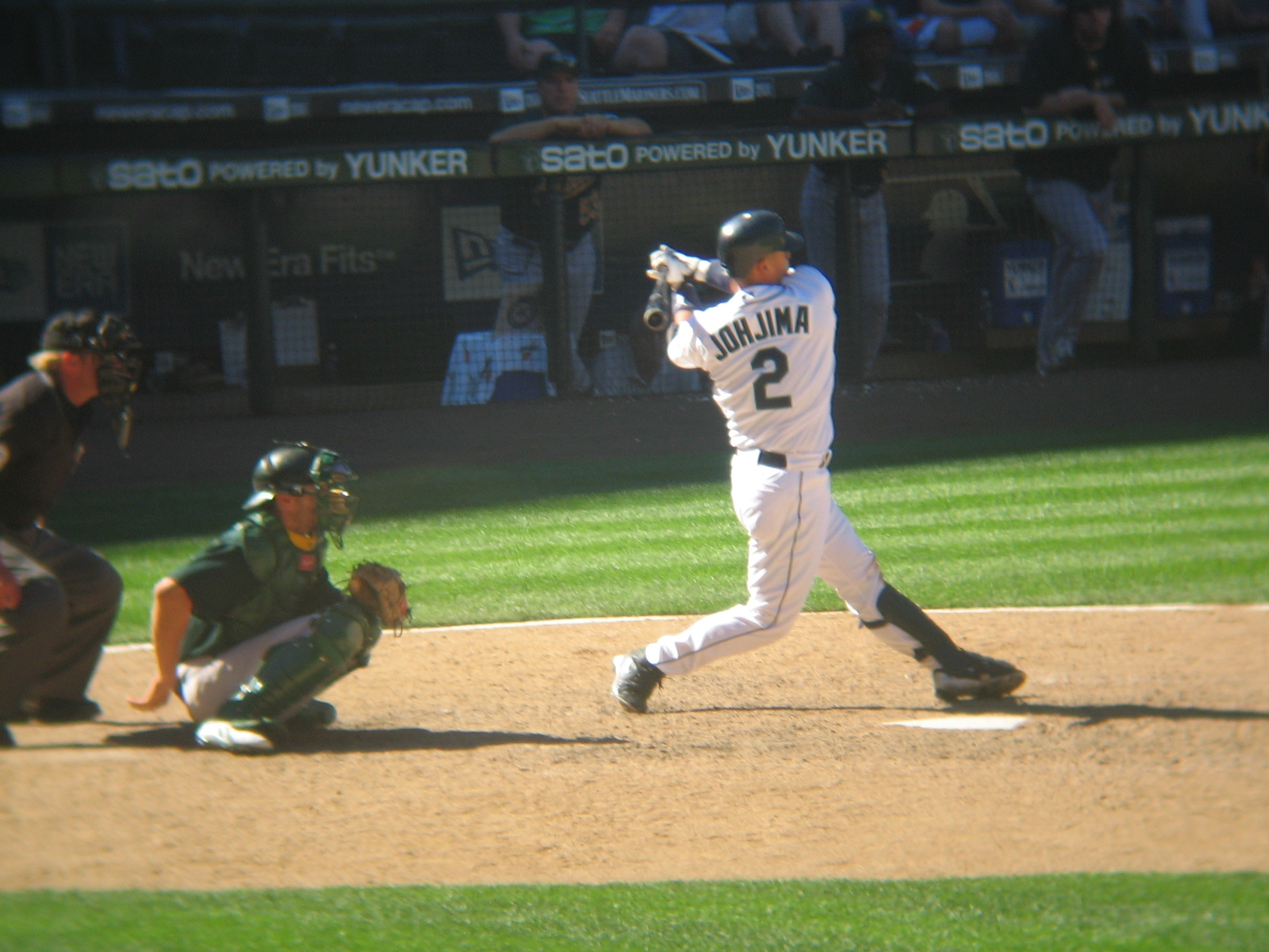 Kenji Johjima while batting against the Oakland Athletics.